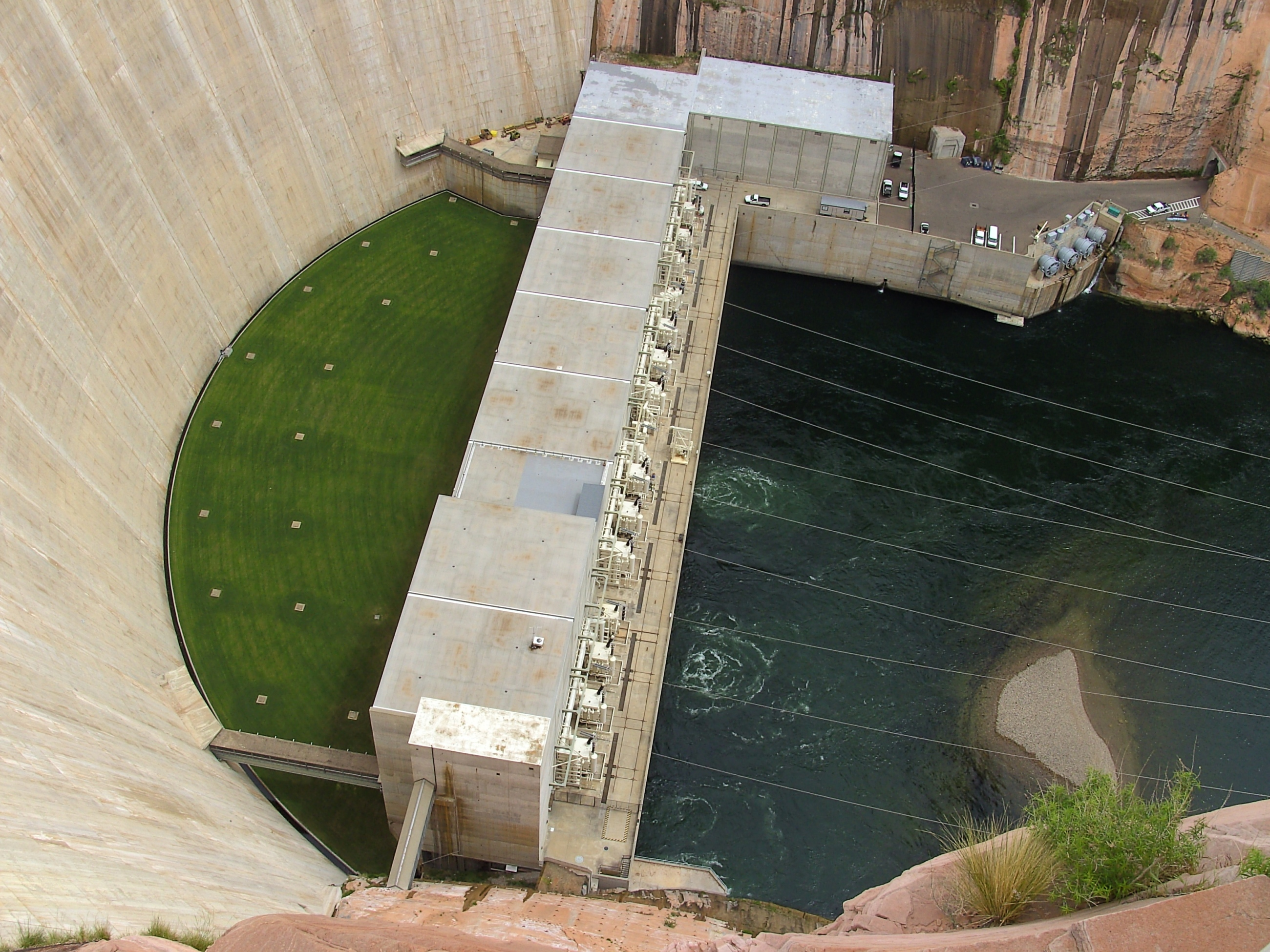 The generator building of Glen Canyon dam, Arizona.